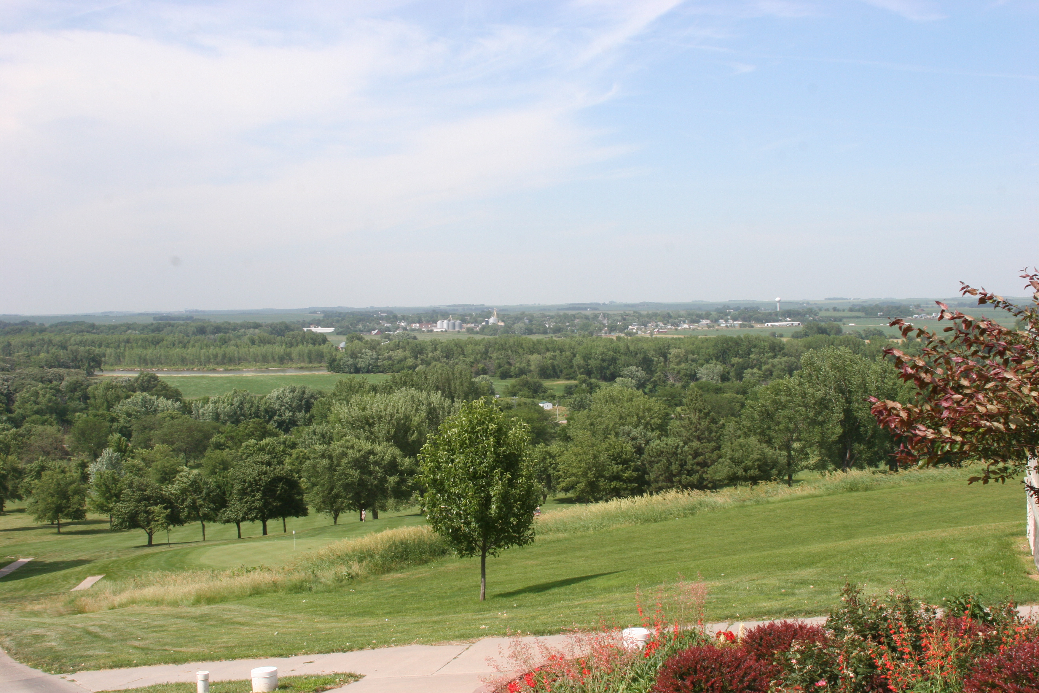 Beemer, Nebraska viewed from the Indian Trails Golf Course. This photo, taken about 1.5 miles south of Beemer, shows the village nestled in the Elkhorn River Valley surround by lush, fertile farm land.